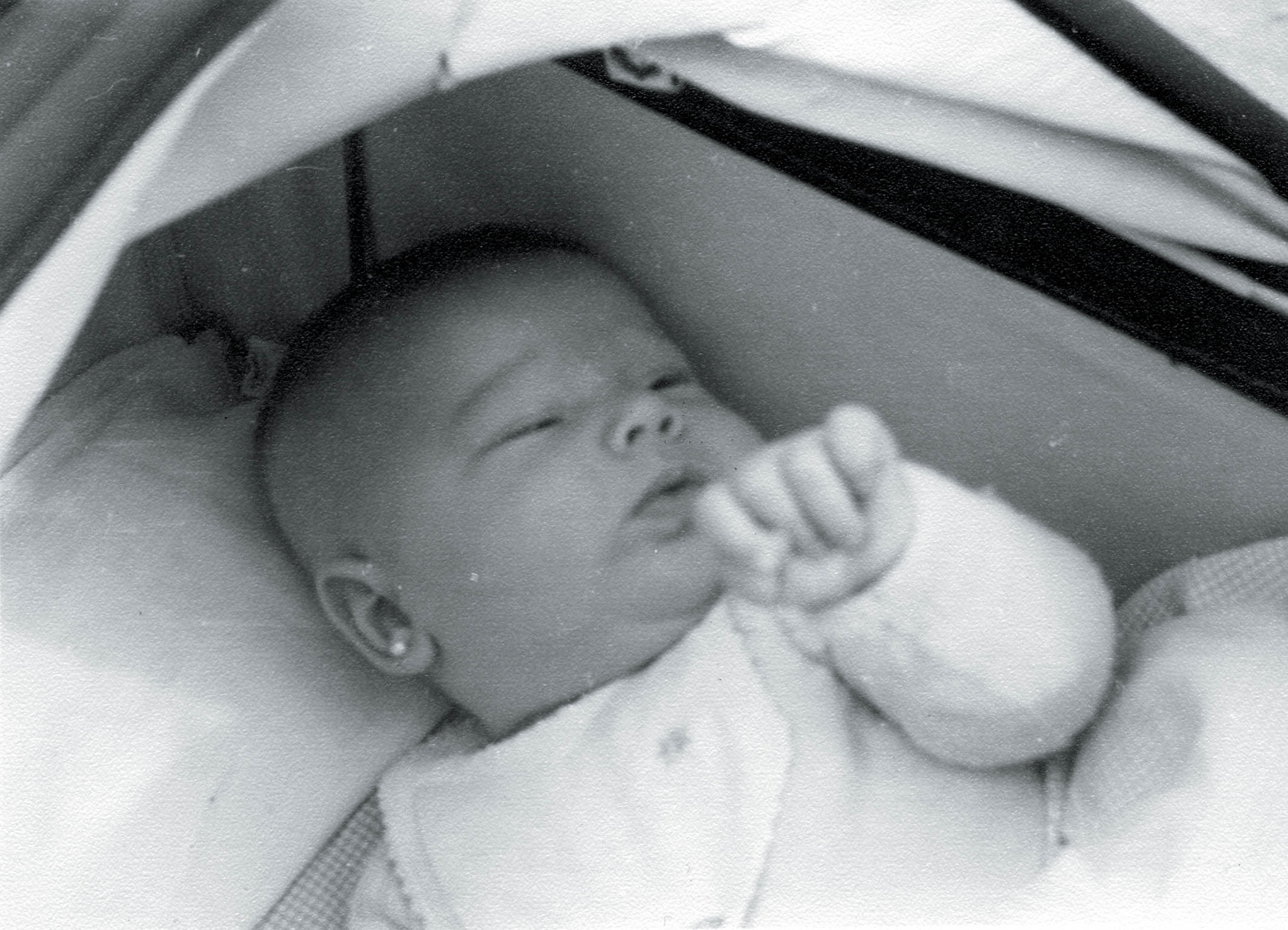 Máxima Zorreguieta 1971